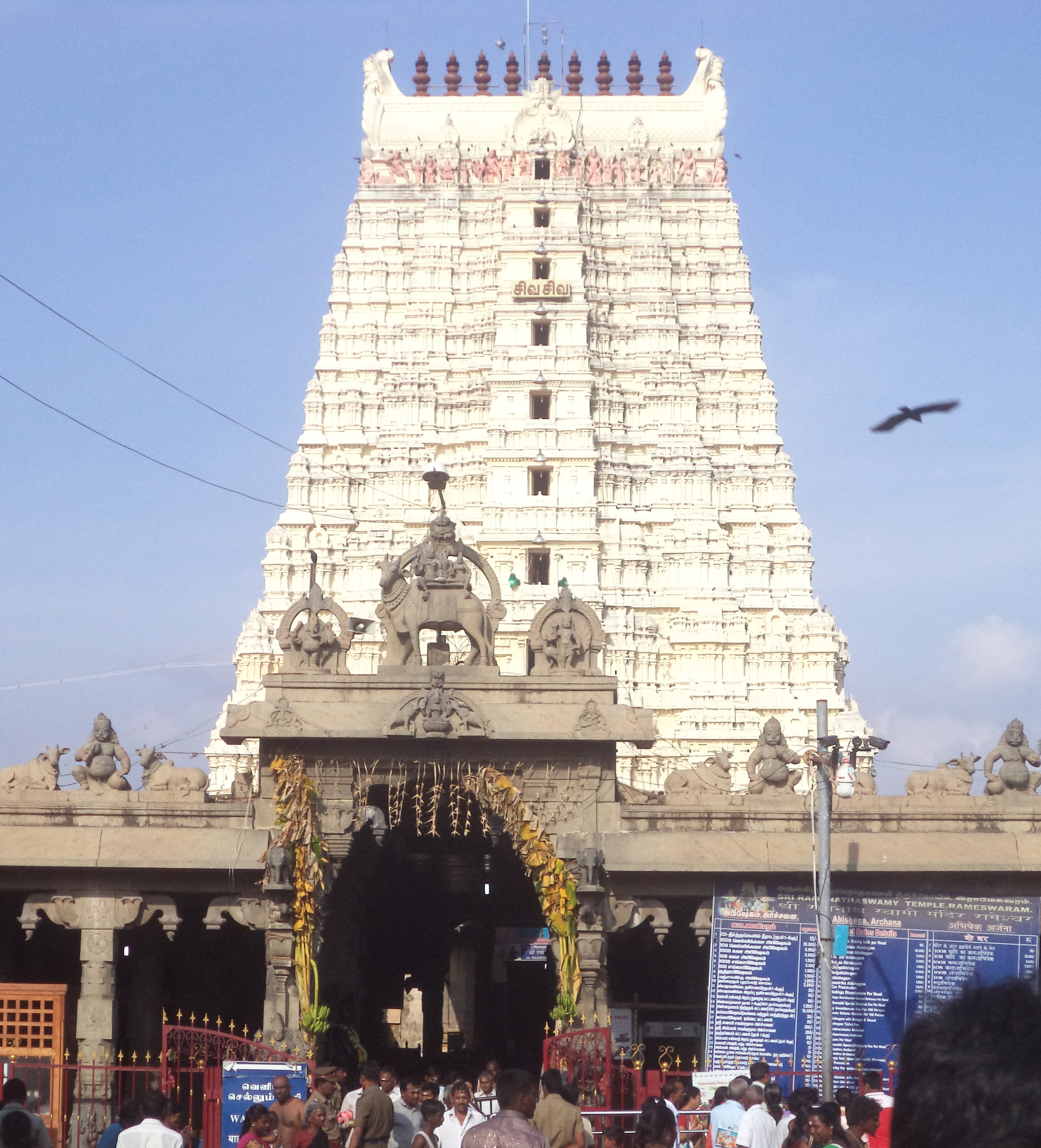 East tower gate of Ramanathaswamy Temple.